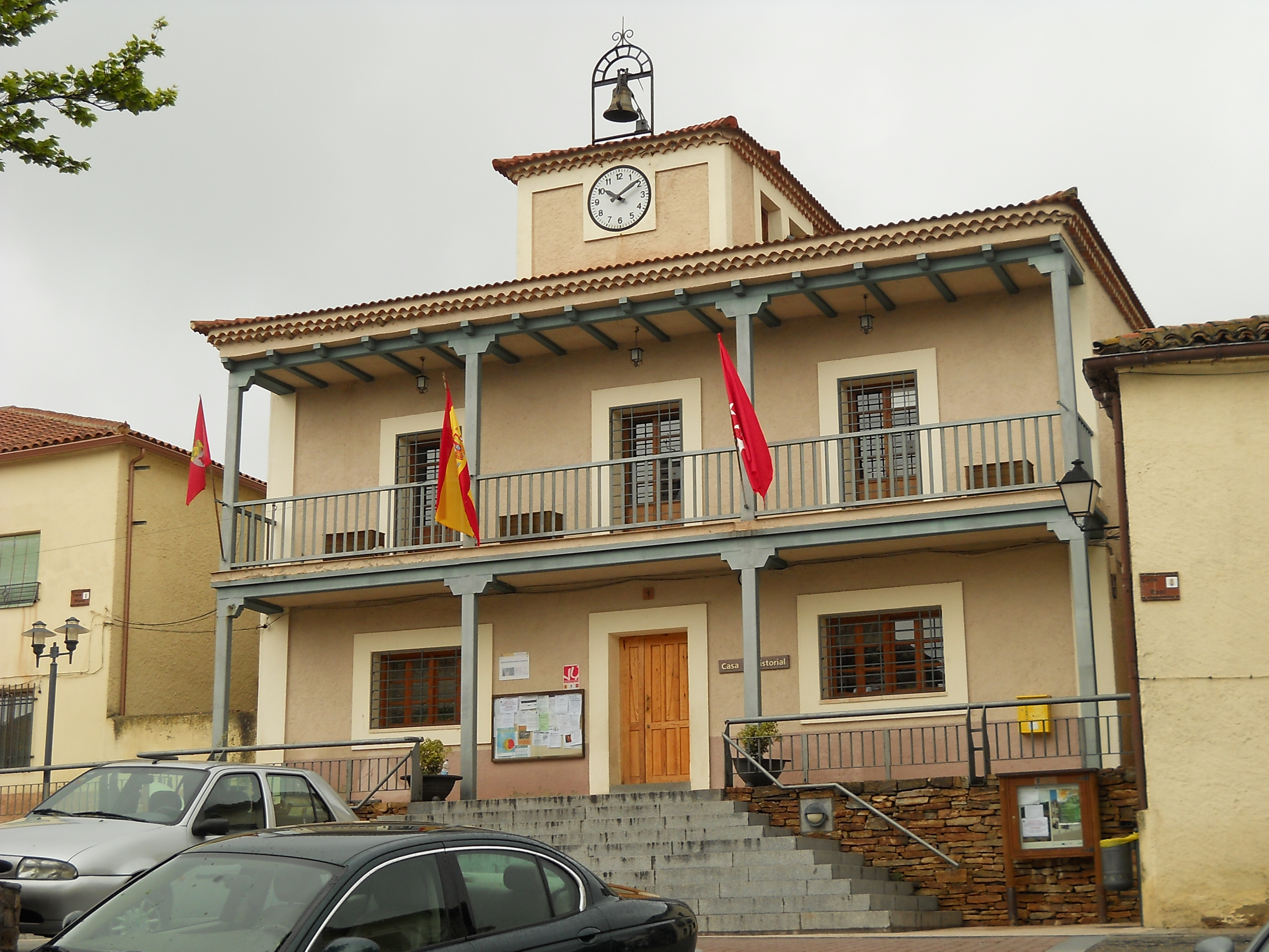 Town hall, Montejo de la Sierra, Madrid, Spain